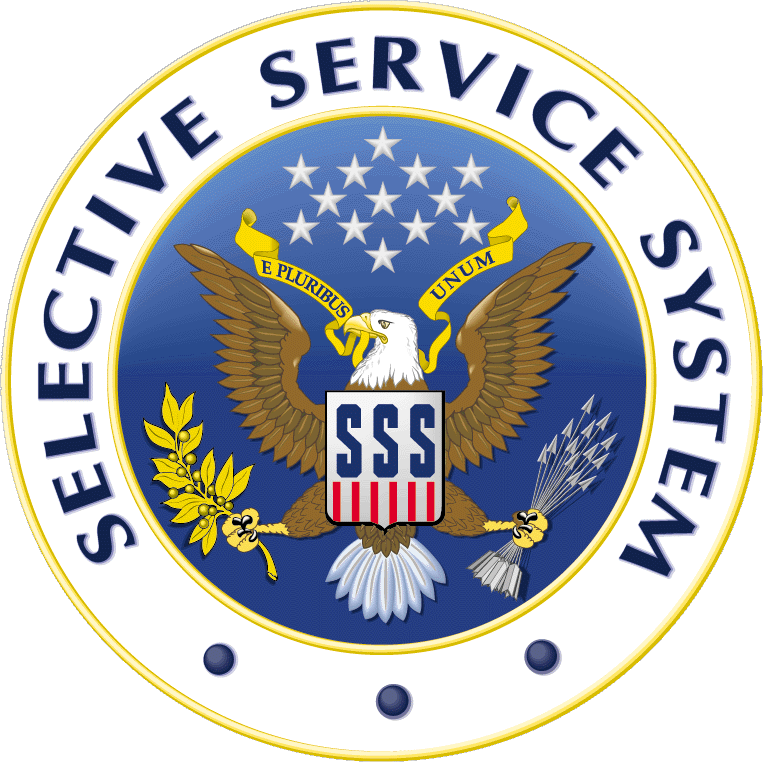 The Seal of the Selective Service System